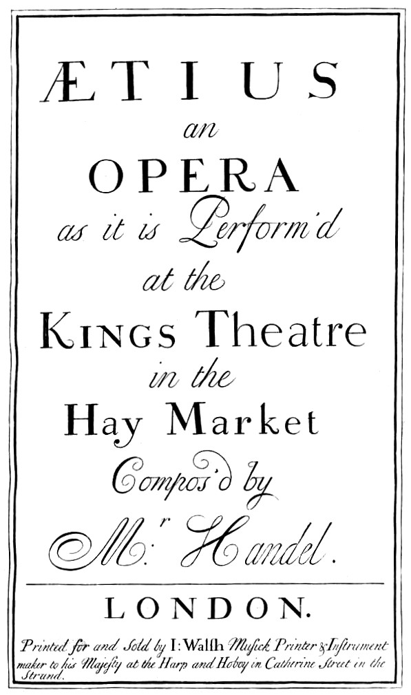 Georg Friedrich Händel - Ezio - titlepage of the score - London 1732